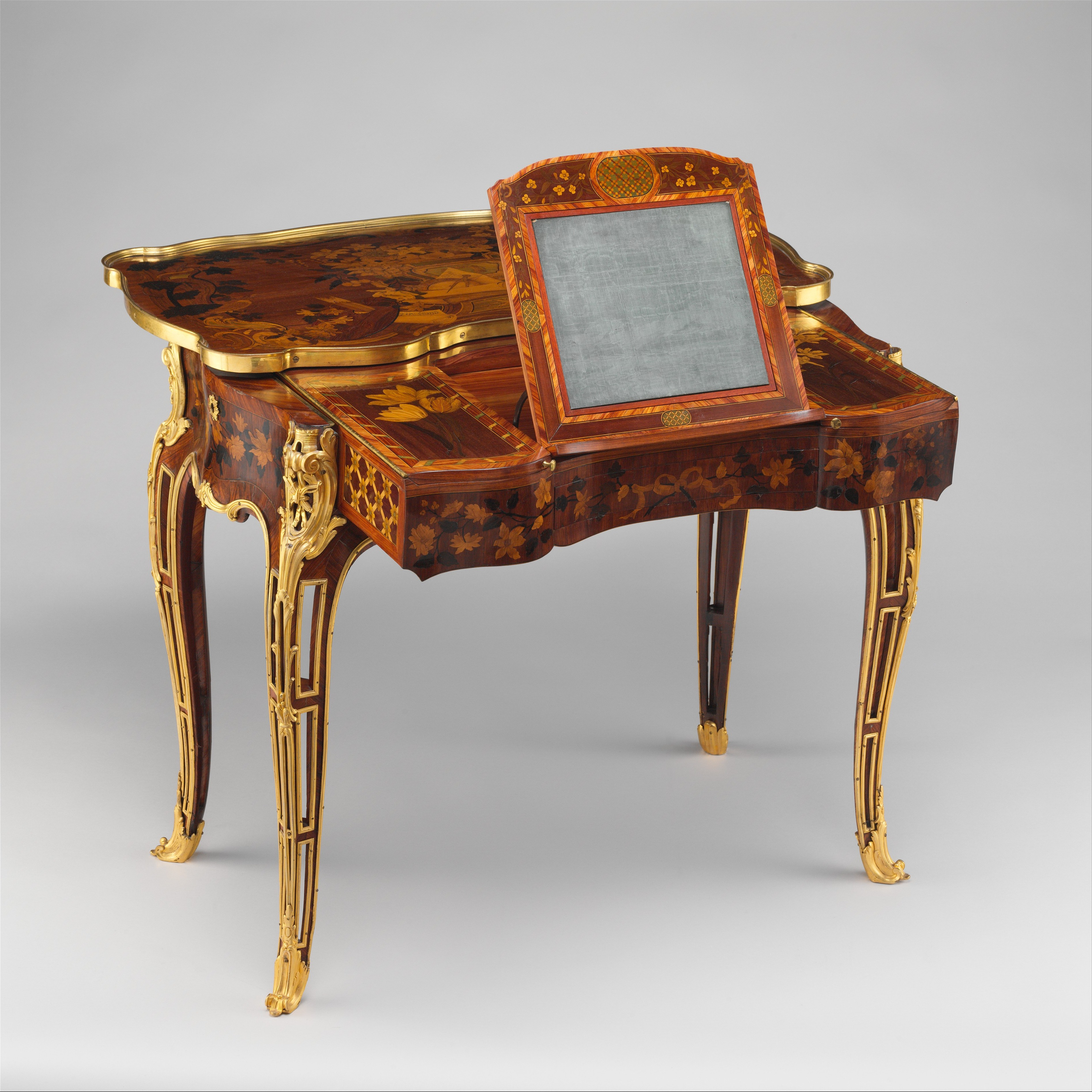 French; Mechanical table; Woodwork-Furniture